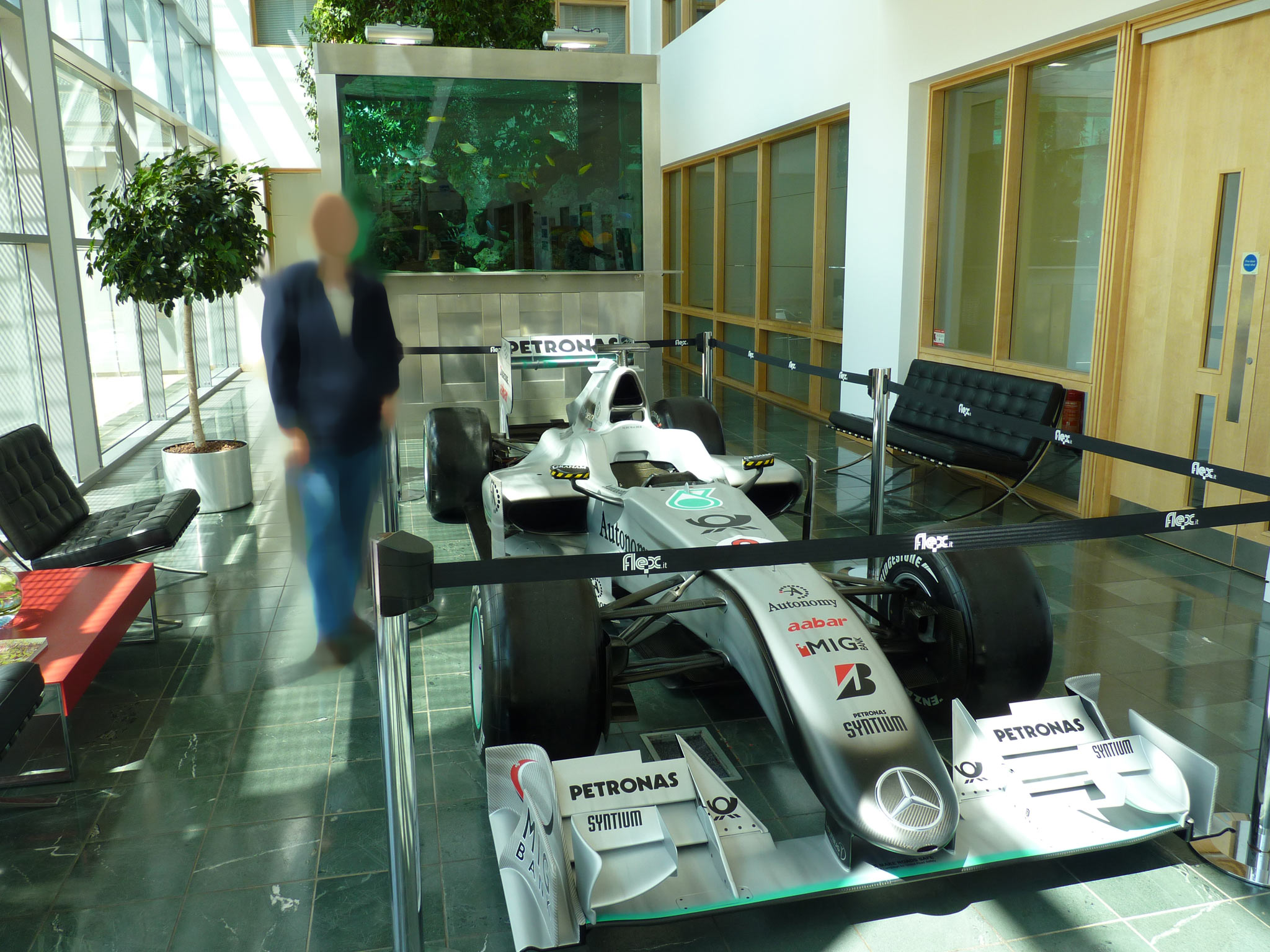 Model of 2010 Mercedes GP Petronas Formula One Team car at the Cambridge Business Park Autonomy building lobby.